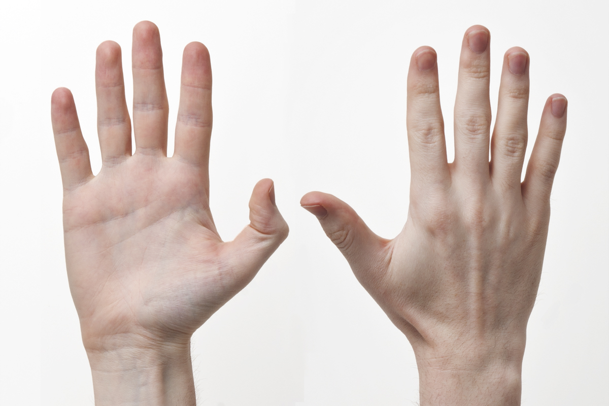 The front and back of a human right hand.